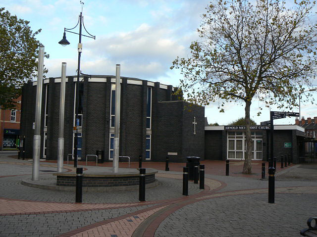 Arnold Methodist Church On the corner of The Market Place and Front Street.